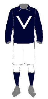 Representation of the 1909 uniform for team Victoria, ice hockey Australia. Other information This is completely my own work, created to provide a representation of uniform worn by the 1909 state team for Victoria - based on old photographs and descriptions of the uniform. Please feel free to share and use this file.